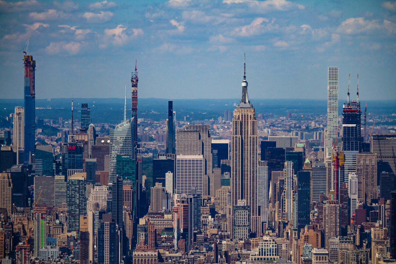 Skyline photo of Midtown Manhattan